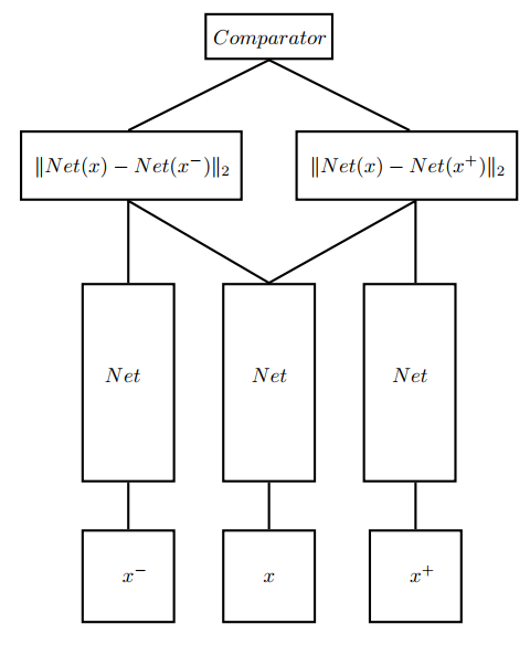 ‌structure